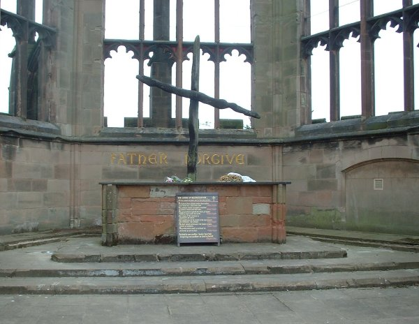 Altar in the apsidal chancel of the ruin of Coventry Cathedral, with a cross made from burnt timbers from the destroyed roof